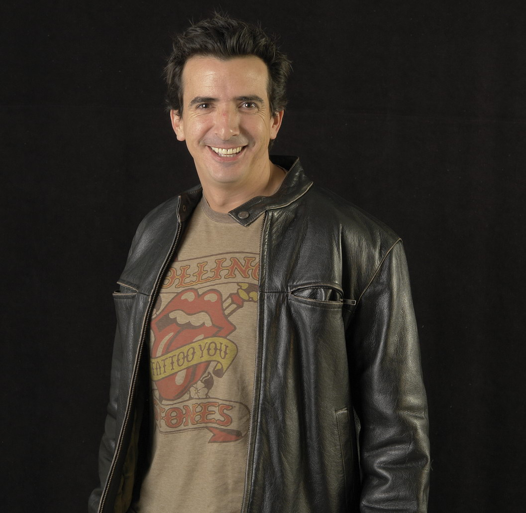 Antonio Santint Colombian Stand Up Comedy and Actor